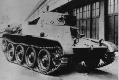 Japanese prototype Mitsubishi Type 98B light tank